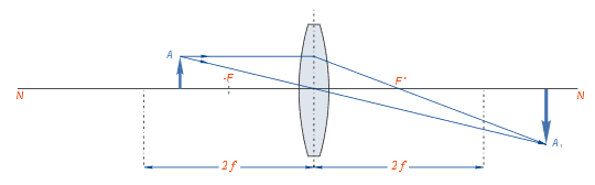 Object: Description: Author: Panther, uploaded here by Maksim Created: 12 Feb 2005 Source: Drawn by Panther using Corel Draw!